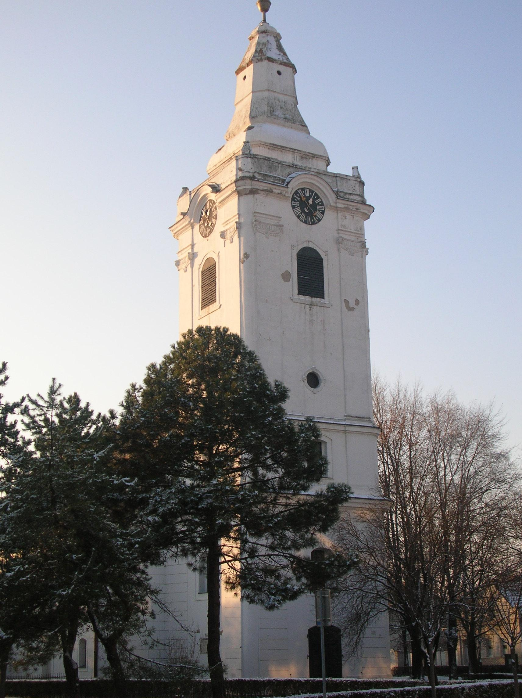 The Old Reformed Church in Makó.